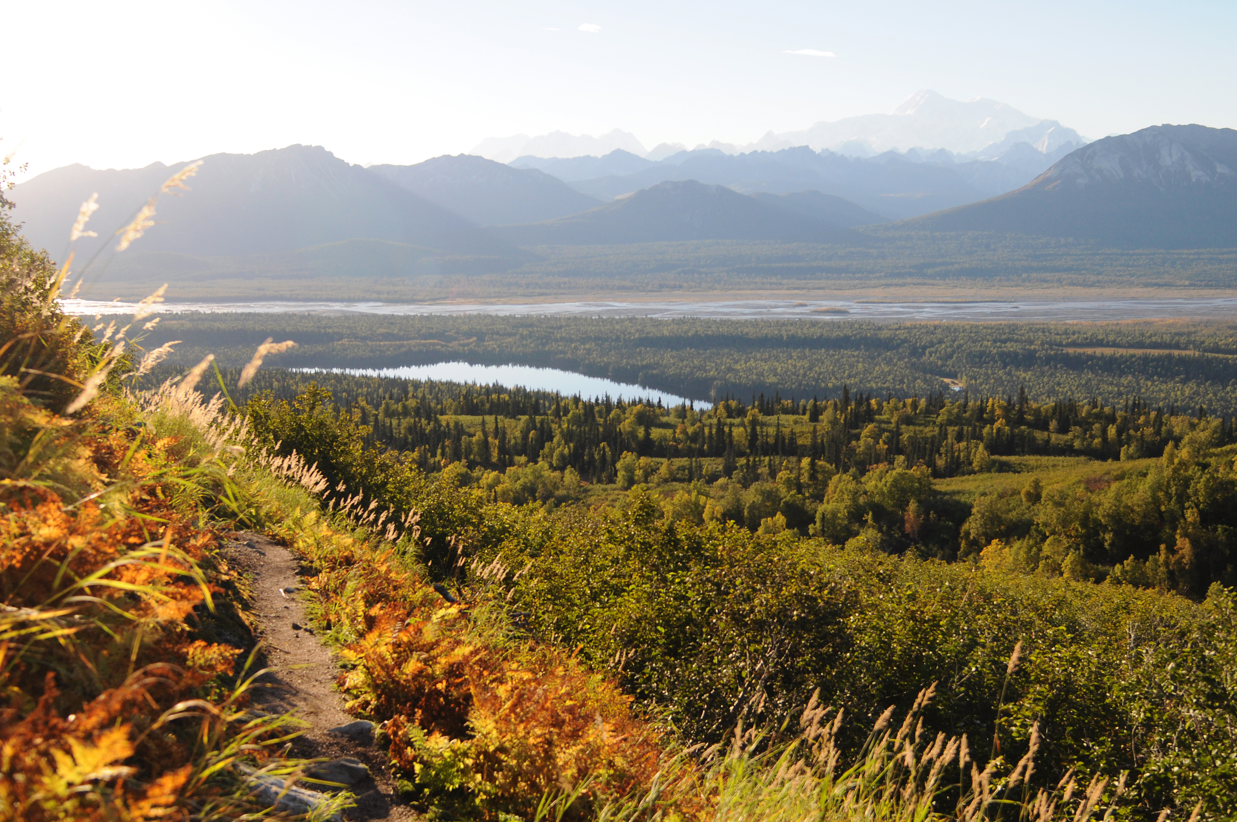 The Cascade Trail climbs from Byers Lake to connect with the popular Kesugi Ridge Trail, in Alaska's Denali State Park. Denali and many other peaks of the Alaska Range are in the background.